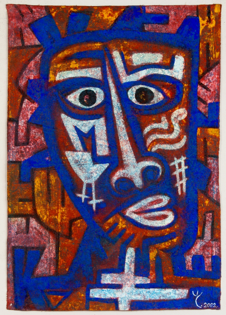 Photo of EL Lokos Painting World Faces